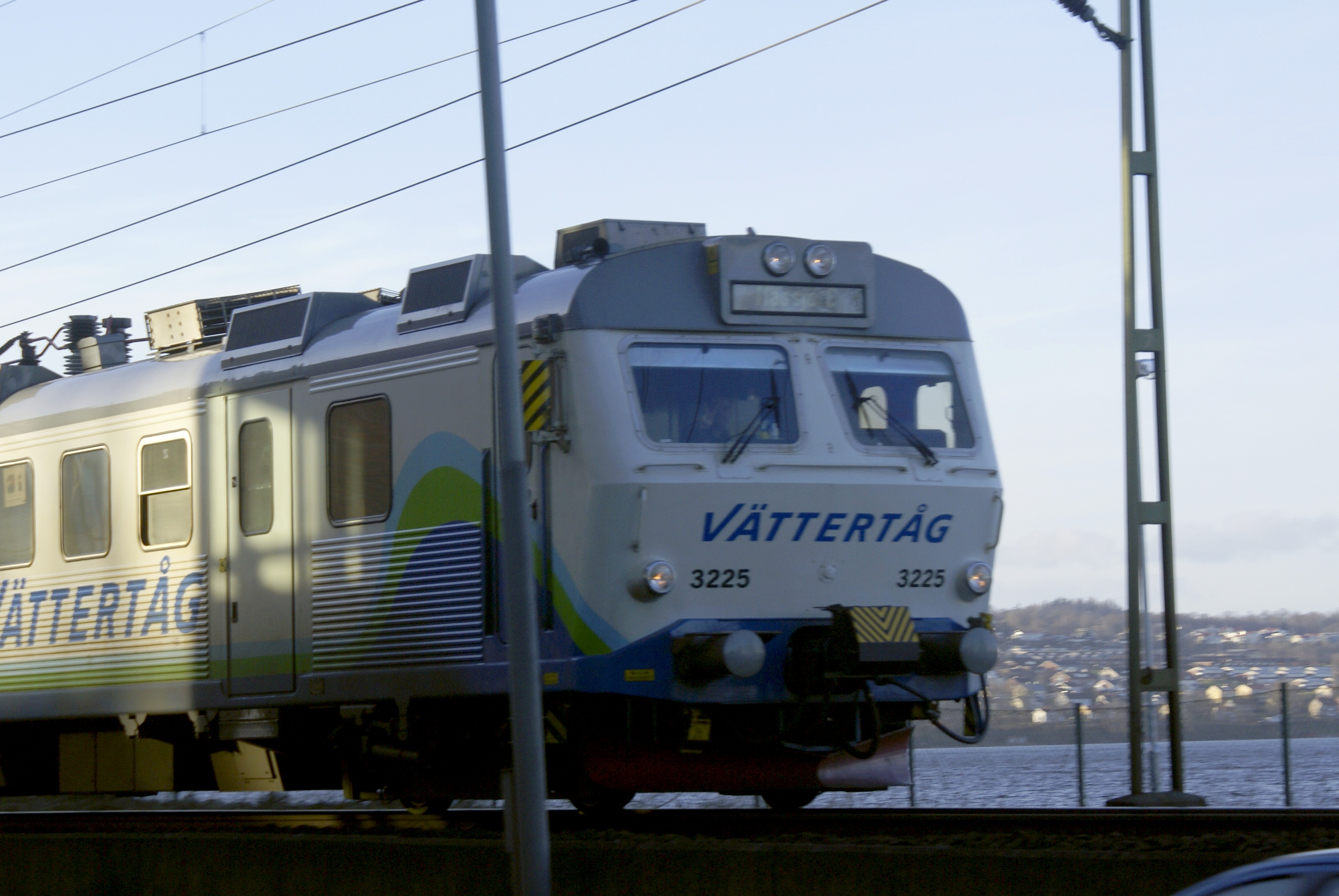 a train from Vättertåg